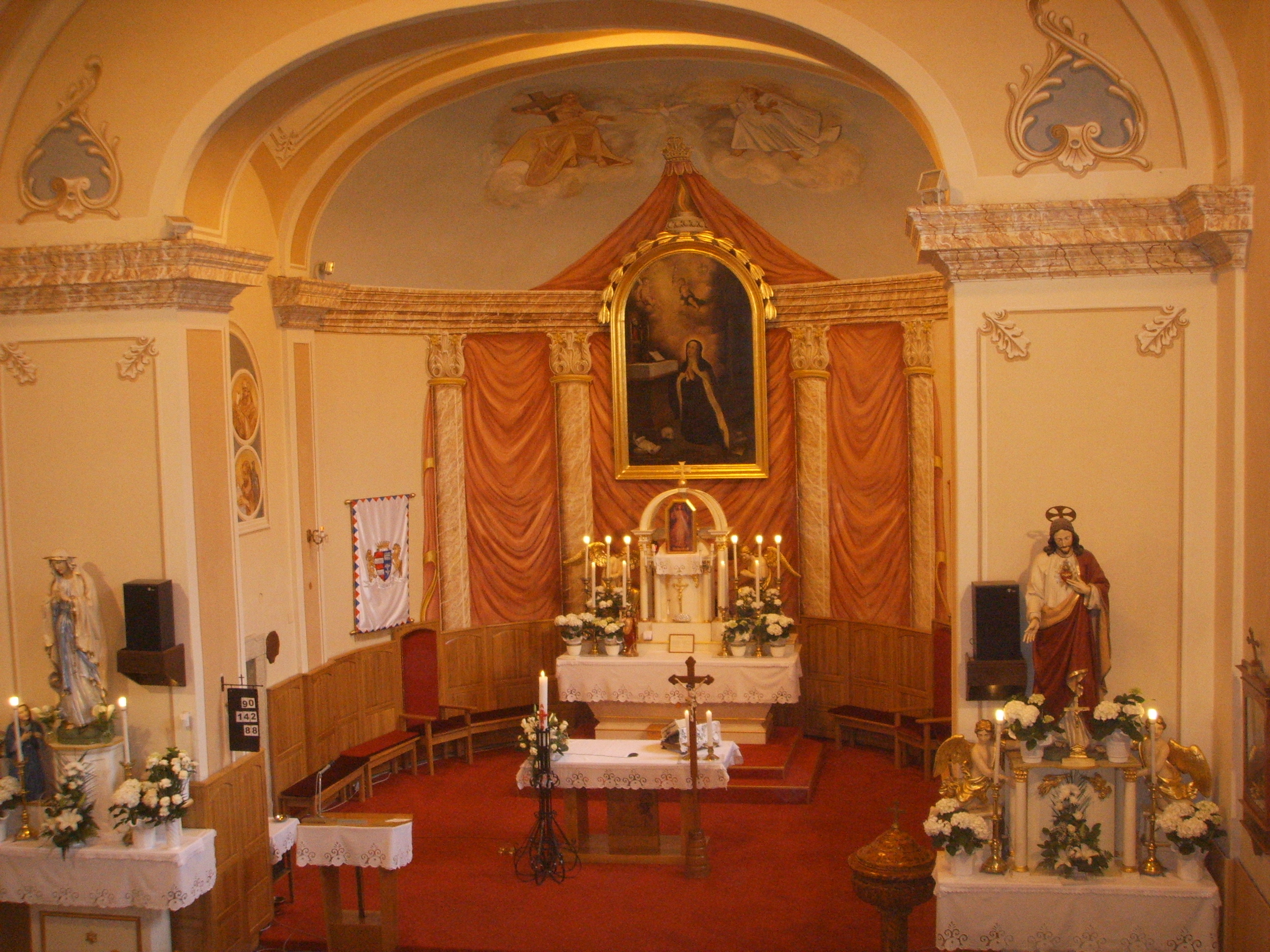 Roman catholic church of Ináncs, Hungary